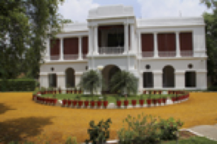 Official residence of the Commissioner of Police